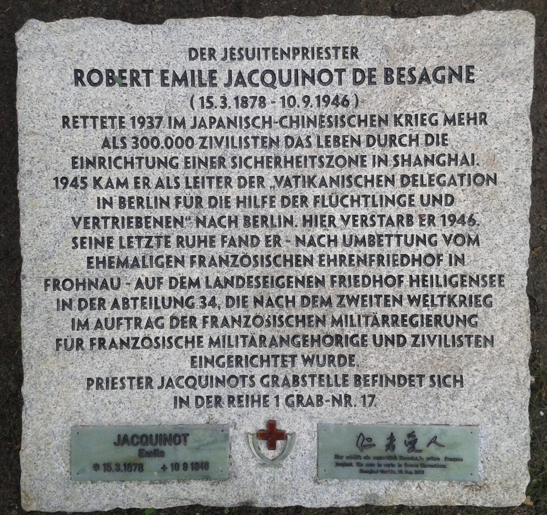 Memorial for Robert Jacquinot de Besange at the cemetery in Berlin-Heiligensee